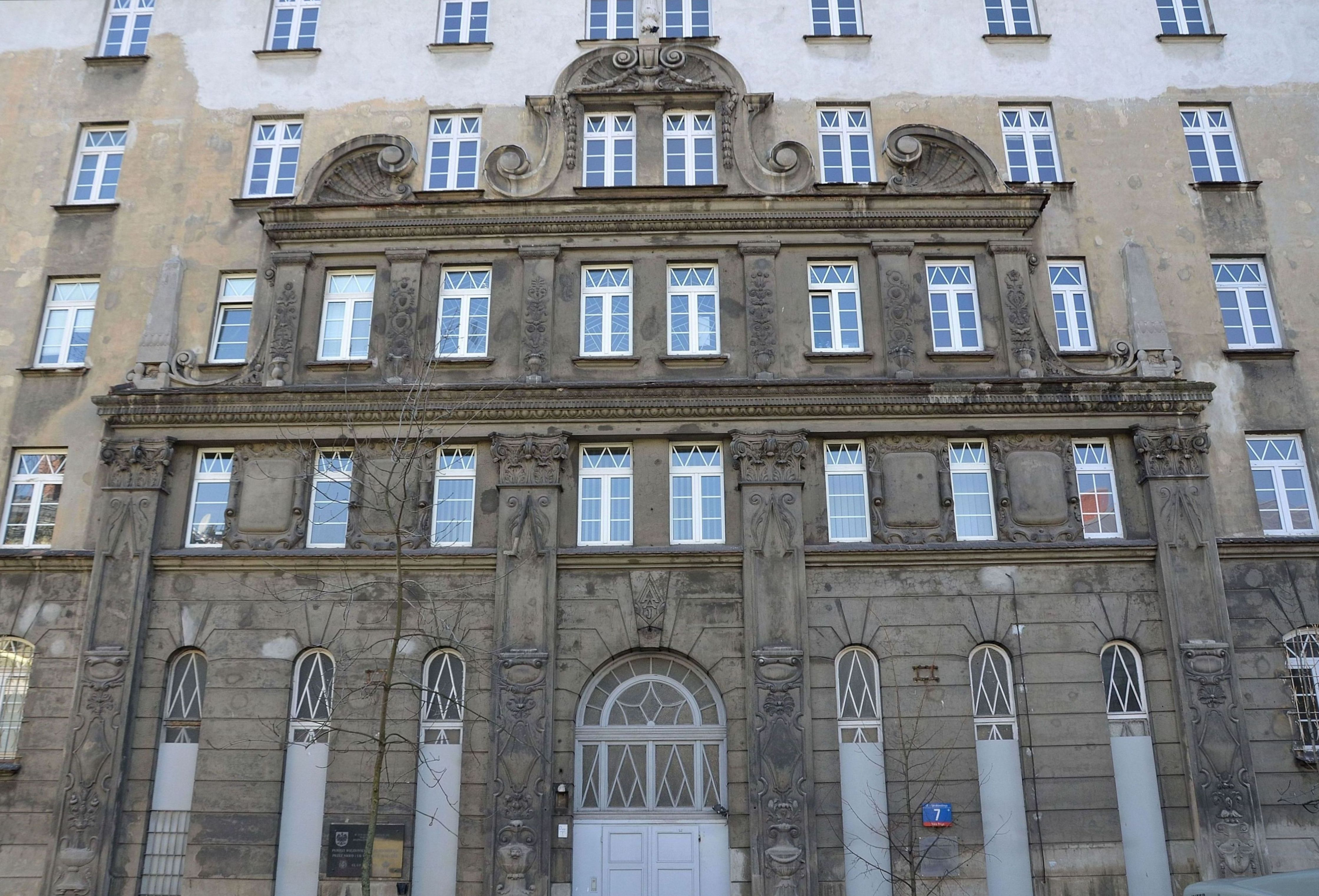 Former Jewish Academic House in Warsaw